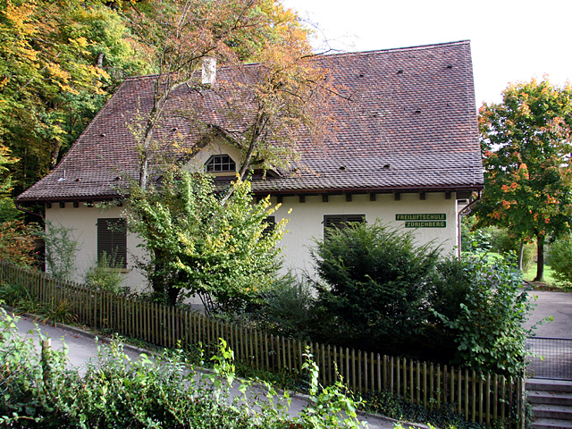 Freiluftschule Zürichberg, a former open-air school in Zürich-Hirslanden, Switzerland